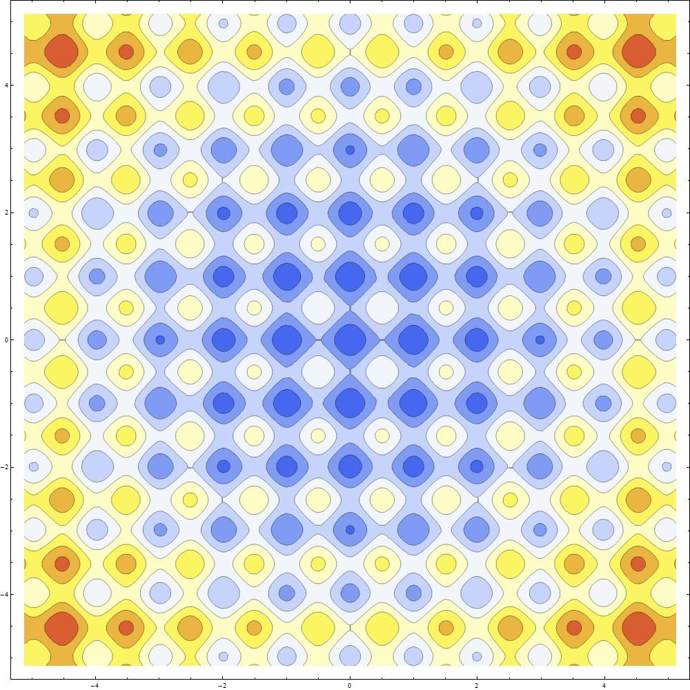 Contour plot of Rastrigin's function in two variables